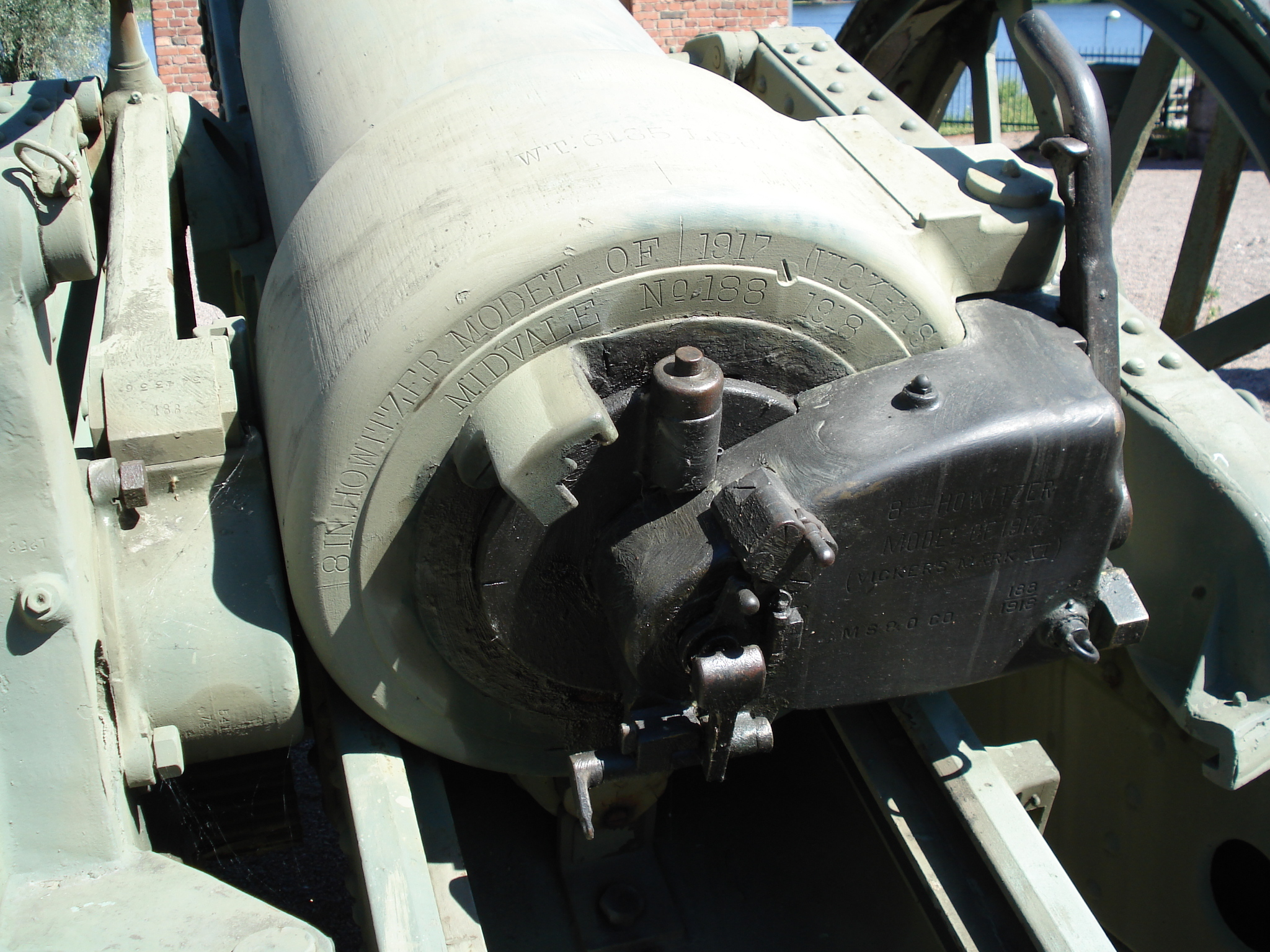 British-designed BL 8 inch Mk.6 howitzer manufactured in USA as Model 1917. Displayed in Hämeenlinna Artillery Museum. The stampings on the breech state: 8 IN. HOWITZER MODEL OF 1917 (VICKERS) MIDVALE NO 188 1918 VICKERS MARK VI. Photo taken on June 18, 2006. Source: Photo by me, User:Balcer.